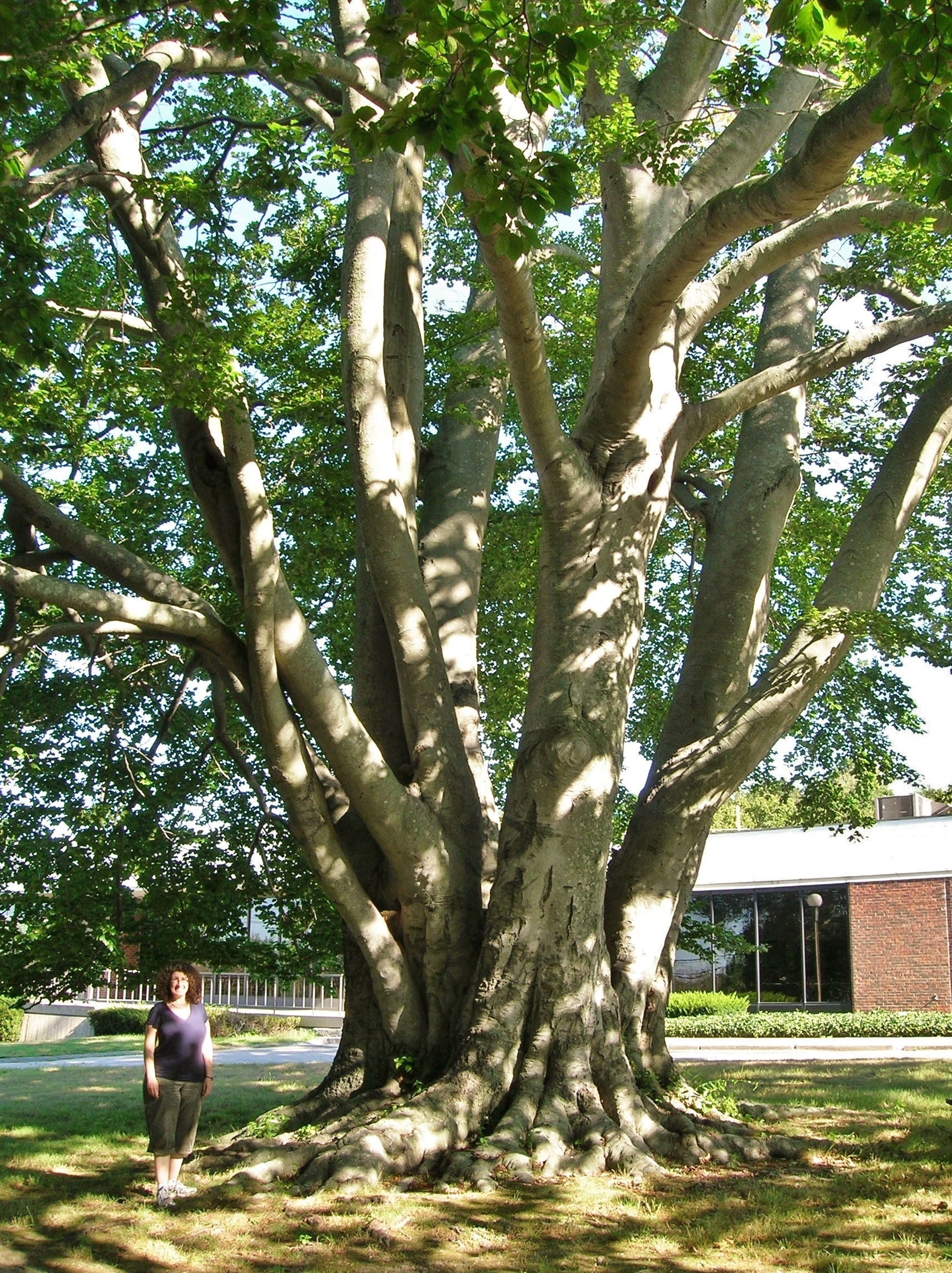 European beech tree located at the offices of The Newport Daily News in Newport, Rhode Island. Circumference = 26 feet, 6 inches at 3.5 feet high; Height = 77 feet. Photo and measurements were taken 8/29/2015.